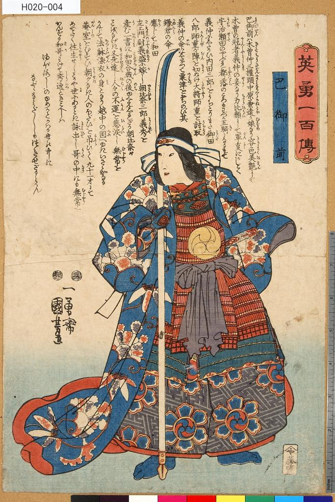 One hundred heroes. Tomoe Gozen